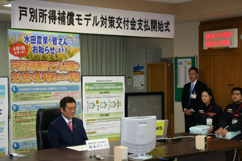 Kenko Matsuki, Parliamentary Secretary of Agriculture, Forestry and Fisheries, attended the ceremony at the Hokkaido Agriculture Office in Sapporo City, Hokkaidō on November 8, 2010. (For terms of use, see 北海道農政事務所/リンクについて・著作権.)